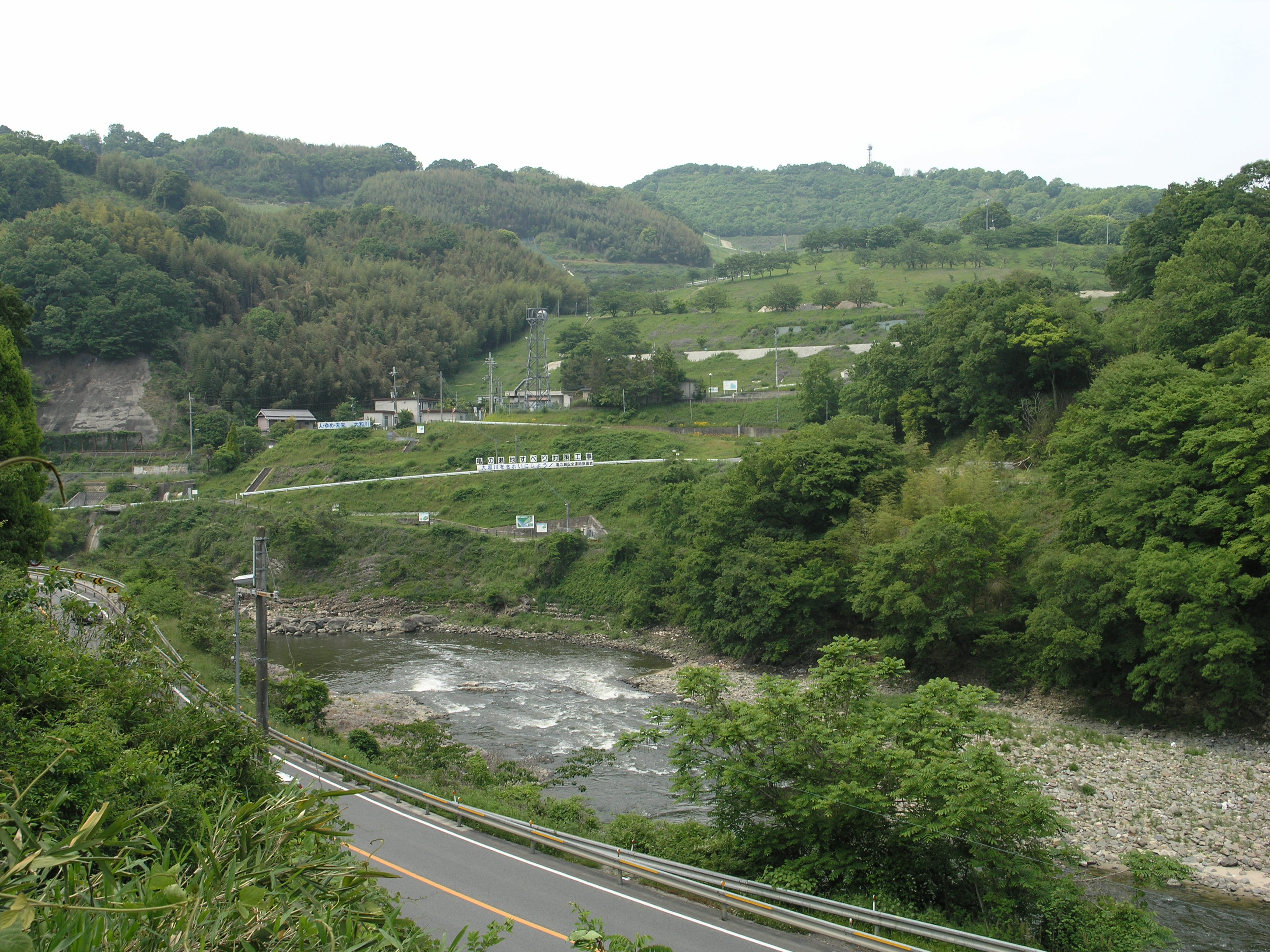 Yamato River at Kashiwara, Osaka, Japan